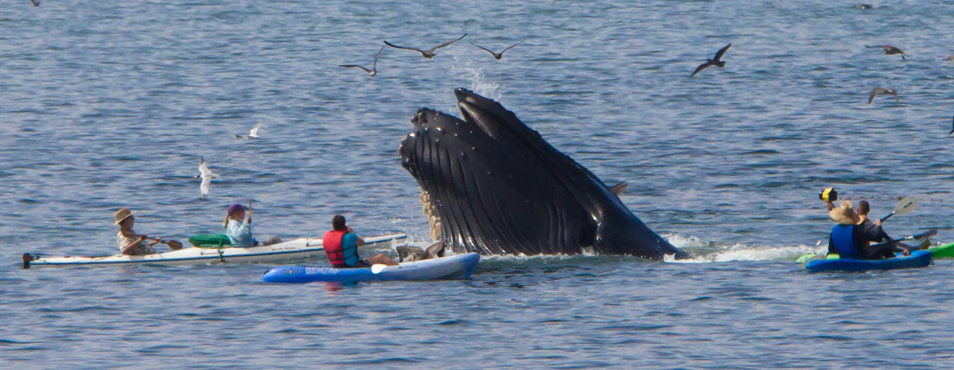 no super big lenses here, but lots of luck seeing these big beauties...what a wonderful time I had photographing amongst friends...check out the guy to the right in a kayak with his video camera...that must have made quite a video!